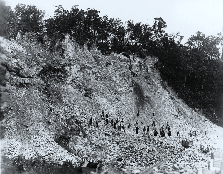 Photograph, Great Northern Plaster Mining Co., Chéticamp, Cape Breton, NS, about 1914, Wm. Notman & Son, Silver salts on glass - Gelatin dry plate process - 20 x 25 cm